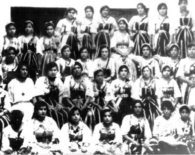 Tripoli Girls School photo, Early 1930's.